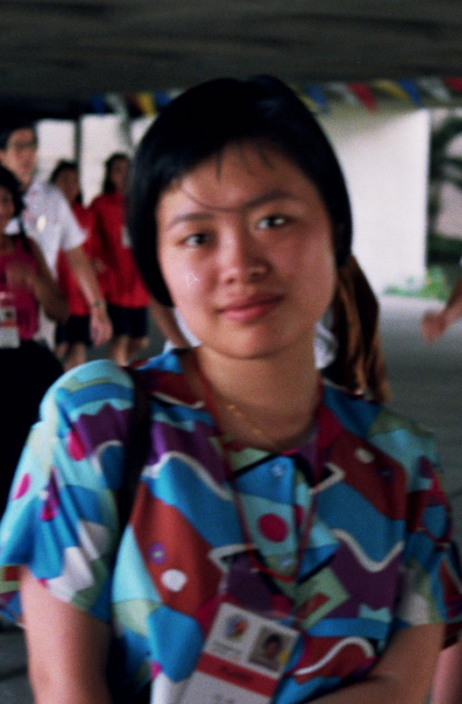 World champion Xie Jun and Barbara Hund, Chess Olympiad 1992, Photographer Gerhard Hund.